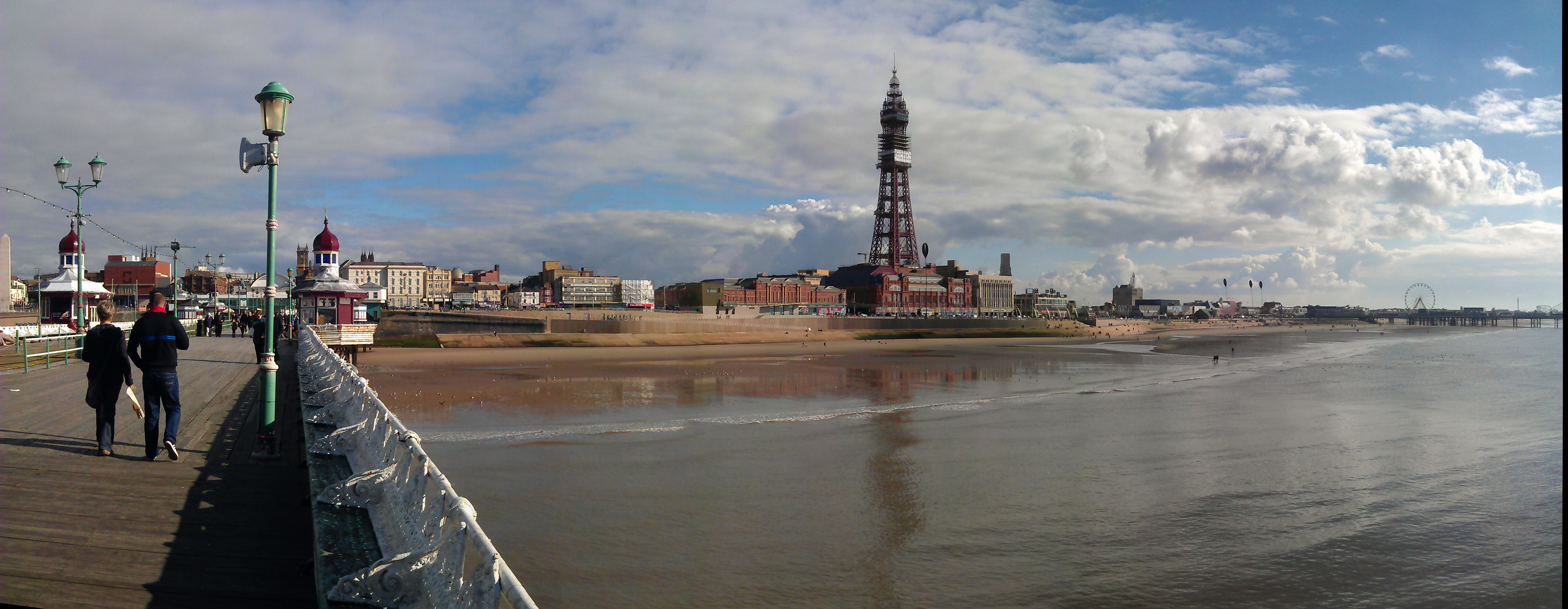 Panorama of Blackpool Seafront taken from North Pier looking toward Blackpool tower and central Pier